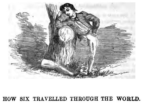 The Runner has taken off his leg and laid it beside him, in "How Six Travelled through the World" (KHM 71 )